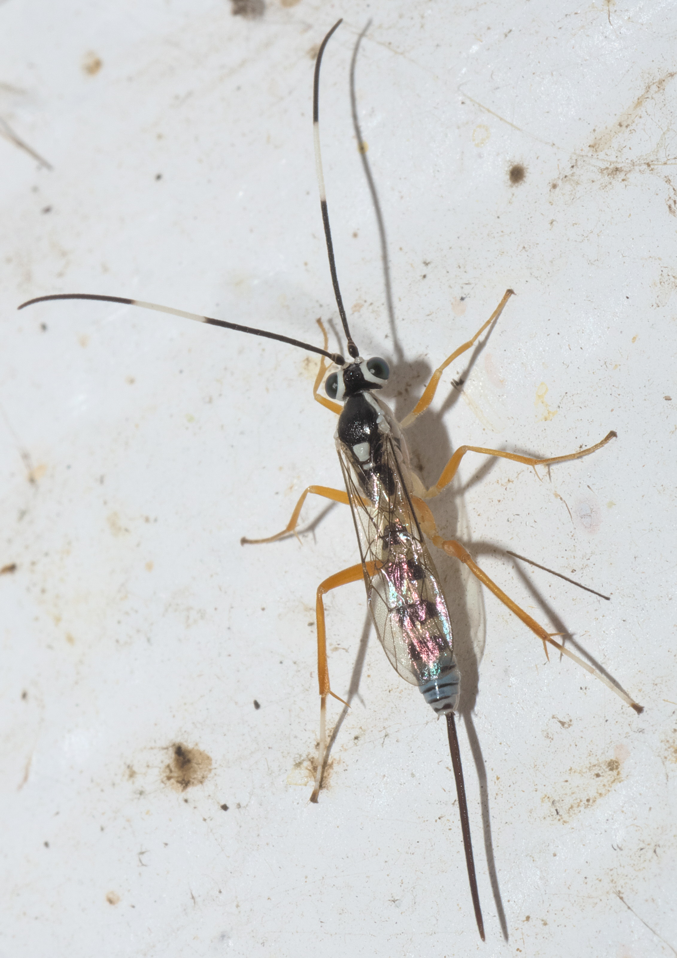 Sphelodon phoxopteridis, Family: Ichneumon Wasps, ID Confidence: 98